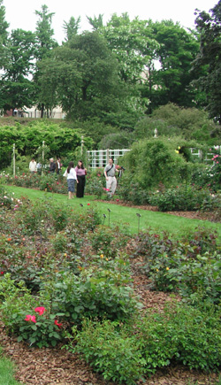 Cranford Rose garden, Brooklyn Botanical Gardens, June 2003,© 2003, by Wikipedia user:alex756, all rights reserved; the license granted herein is to Wikimedia Foundation, Inc. for non-exclusive distribution under the GNU FDL. Please contact user:alex756 for permission to use in any other (i.e. non-GFDL or CC) context. Alex756 04:59, 21 Aug 2003 (UTC)